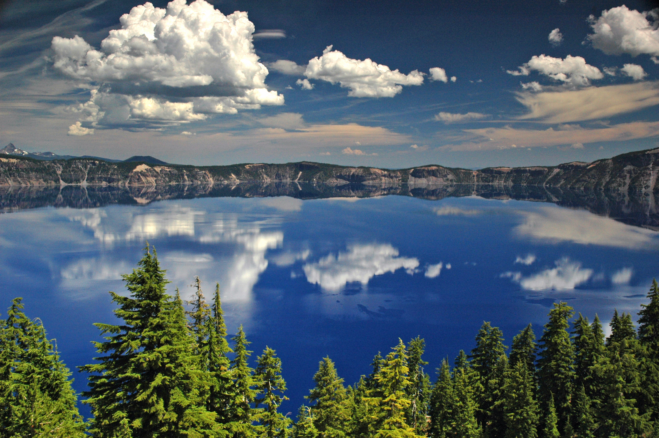 Crater Lake National Park in Southern Oregon, USA. Miles across, and one of the most beautiful places I've ever been to! Nikon D70. Polarizer and ND Grad filters. Minimal color adjustment. Another shot can be found here Hit #17 on Explore on 11/25/06. Thanks everybody.